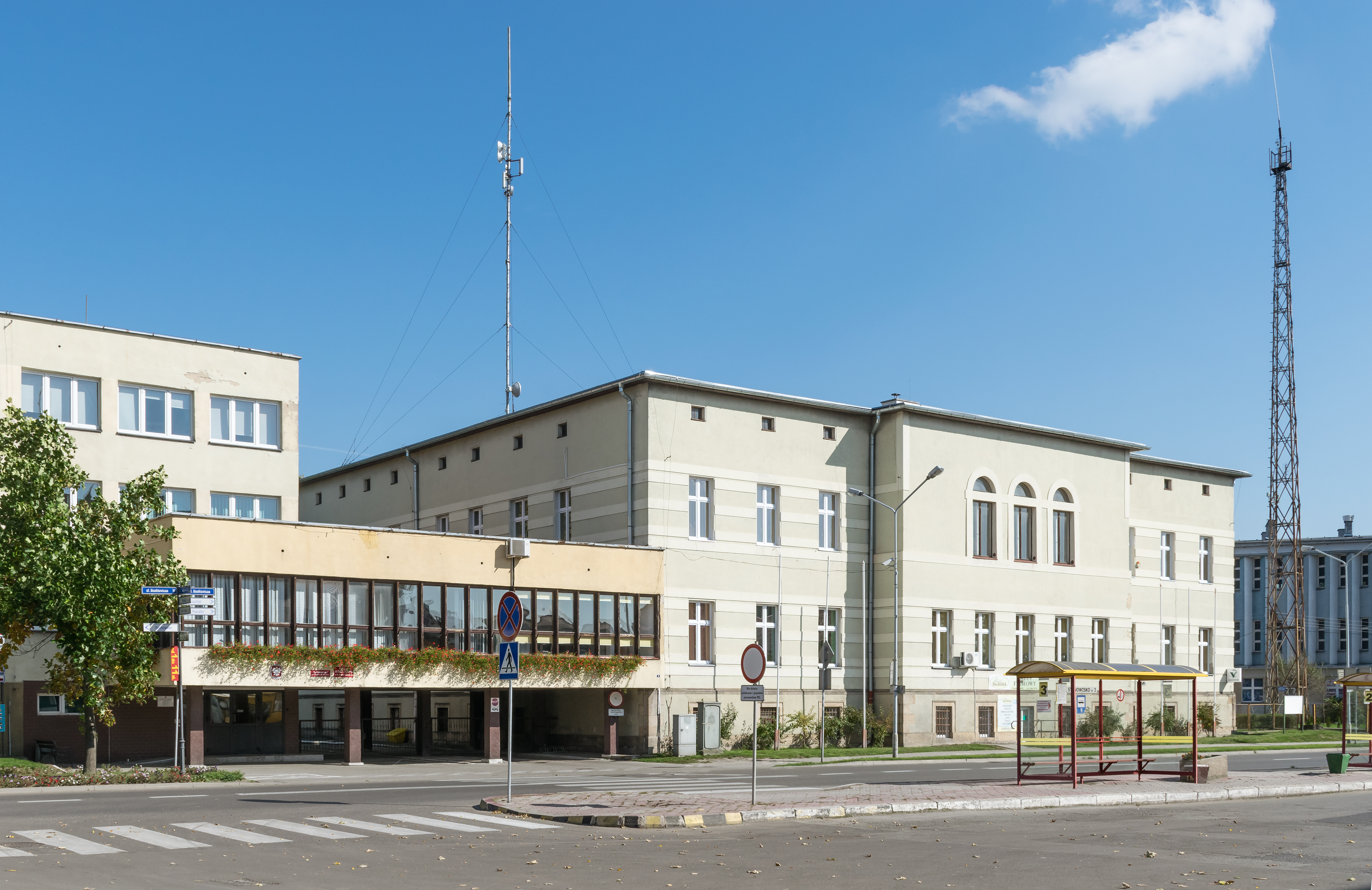 Powiat office in Bystrzyca Kłodzka